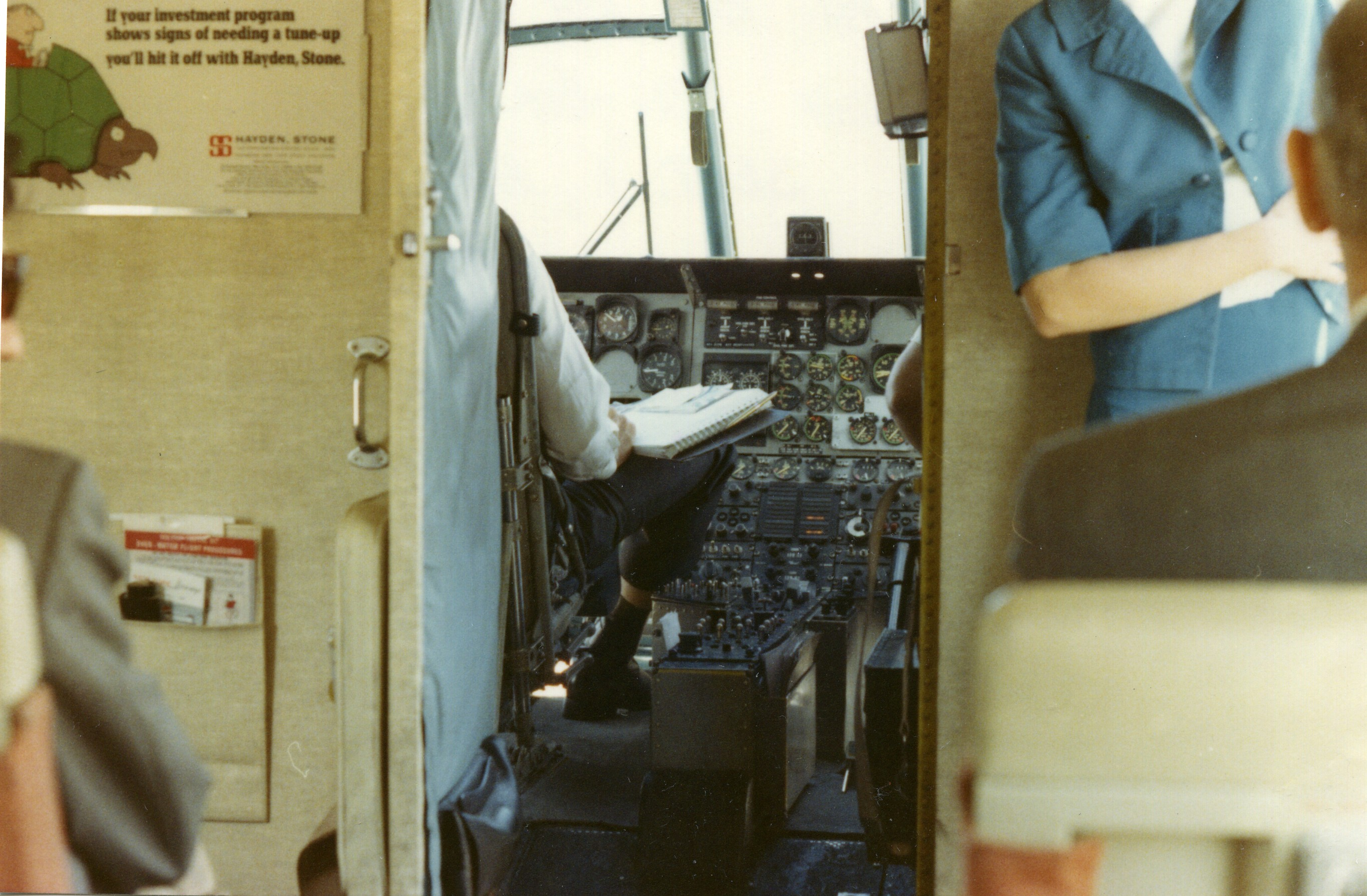 New York Airways helicopter shuttle (with cockpit door open) getting ready to fly from the top of the Pan-Am Building in downtown New York City to JFK Airport, 1967 Photo taken September 1, 1967. The helicopter is a Boeing-Vertol 107-II built in 1964. Registration number N6682D.